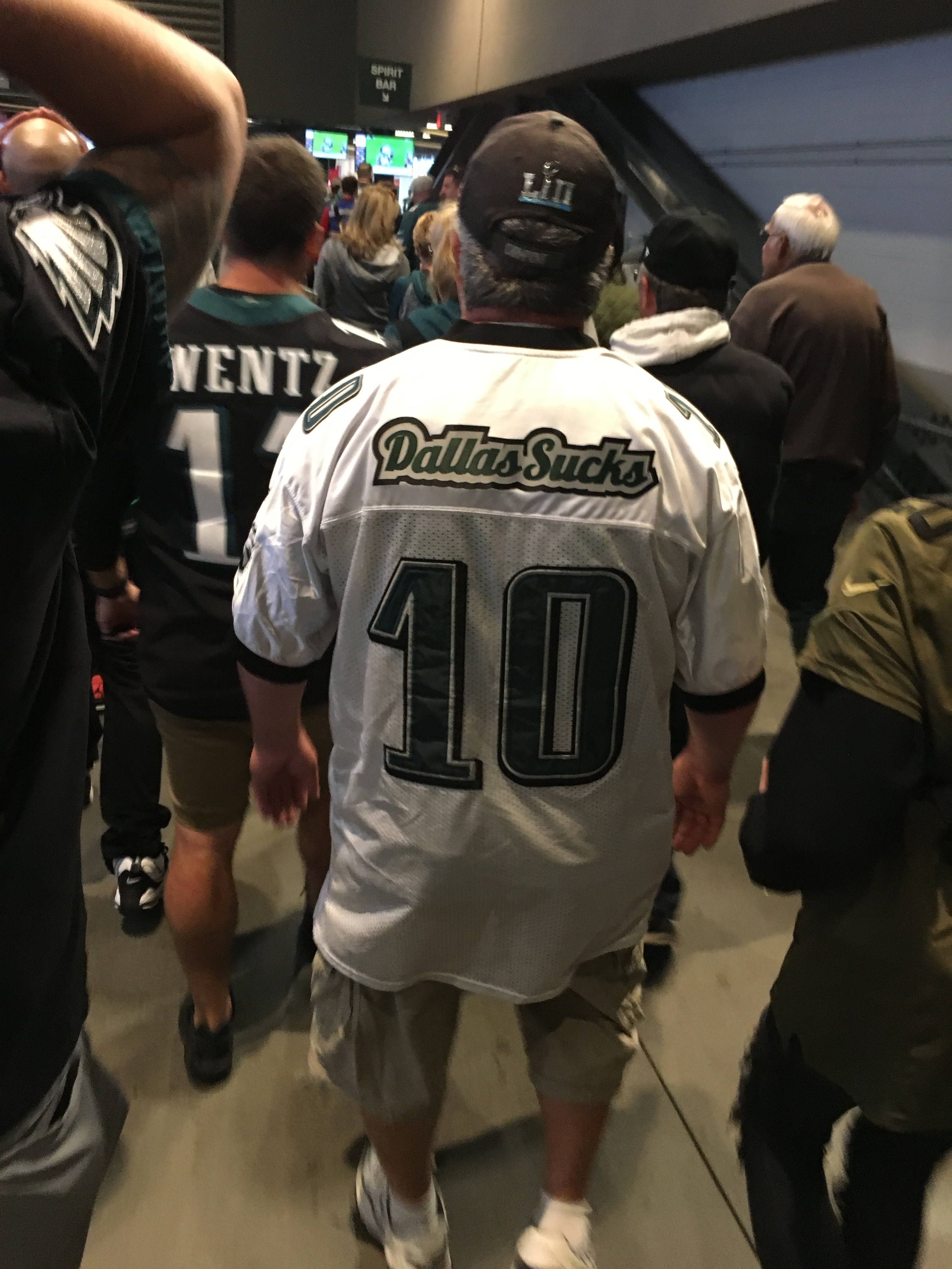 A "Dallas Sucks" jersey being worn by a Philadelphia Eagles fan ... at game that had nothing to do with the Dallas Cowboys. Seen before game time in the corridors of Lincoln Financial Field as the Eagles were playing host to the out-of-conference New York Jets.